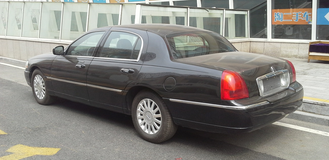 Lincoln Town Car III facelift photographed in Beijing, China.